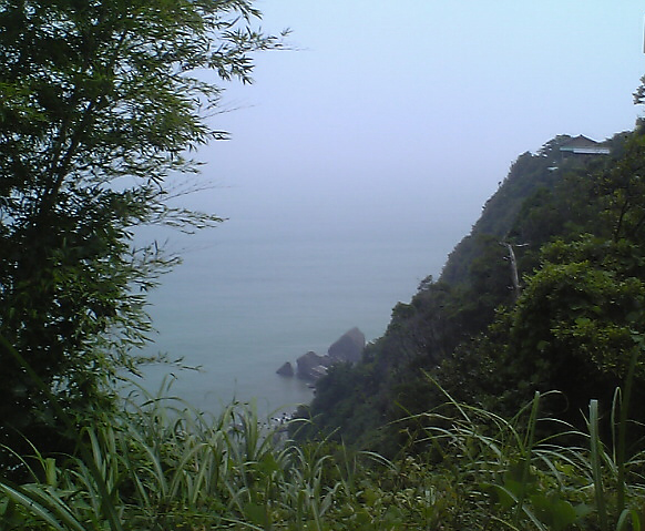 Ōkuzure Coast in Suruga-ku, Shizuoka.